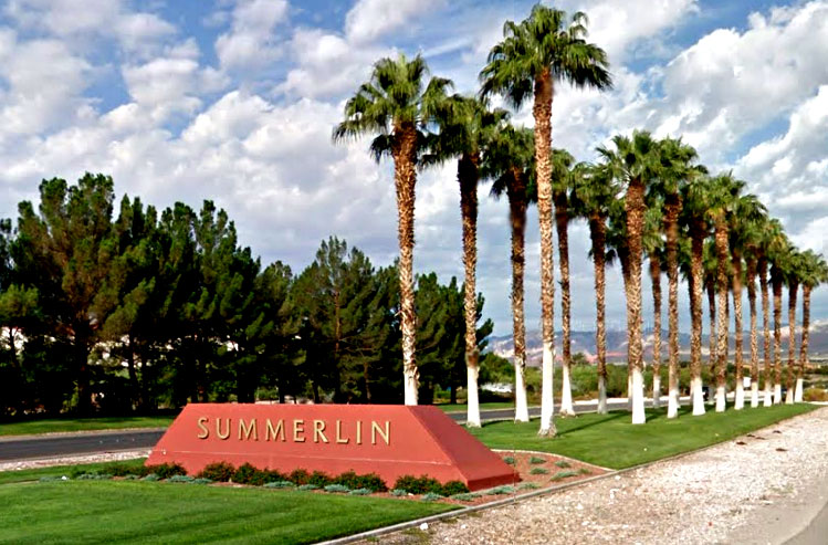 Summerlin Entrance off of Summerlin Parkway